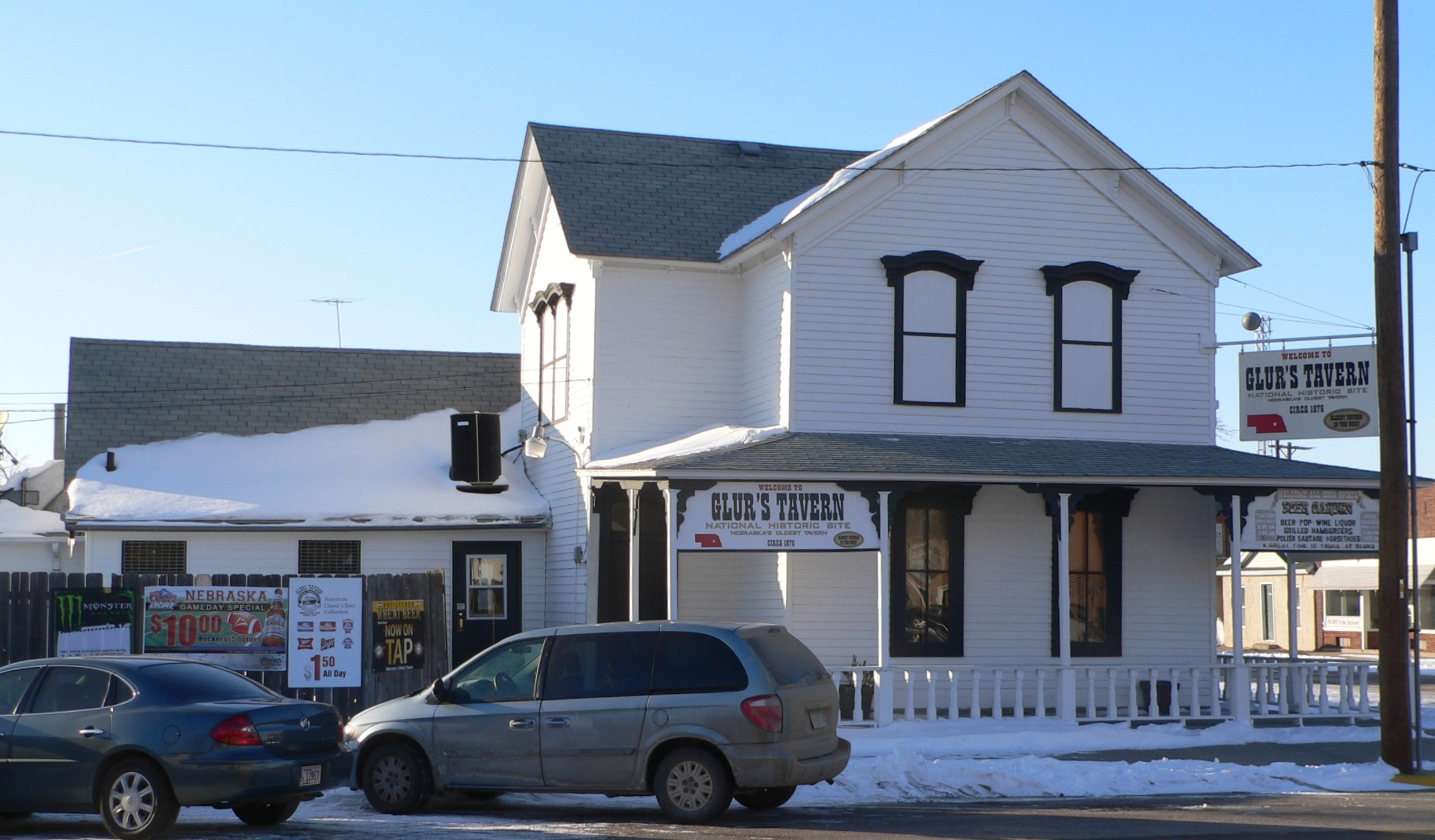 Glur's Tavern in Columbus, Nebraska; seen from the east. The building was designed in simplified Italianate style, and built in 1876. The building continues to serve as a bar.